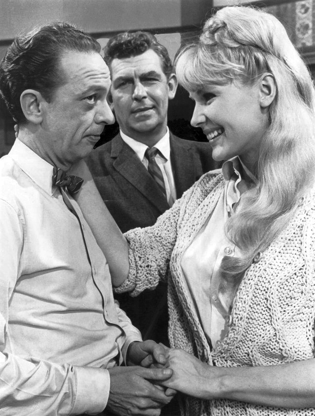 Photo of Andy Griffith, Don Knotts and Margaret Teele from the television program The Andy Griffith Show. In this episode, Andy goes to Raleigh to visit Barney, who is now living and working there. (Knotts left the regular cast of the show in 1965 but continued to appear on it periodically until its end in 1968.) While there, Barney is made out to be a hero when Andy helps him solve a string of robberies committed by Teele's character and her family.